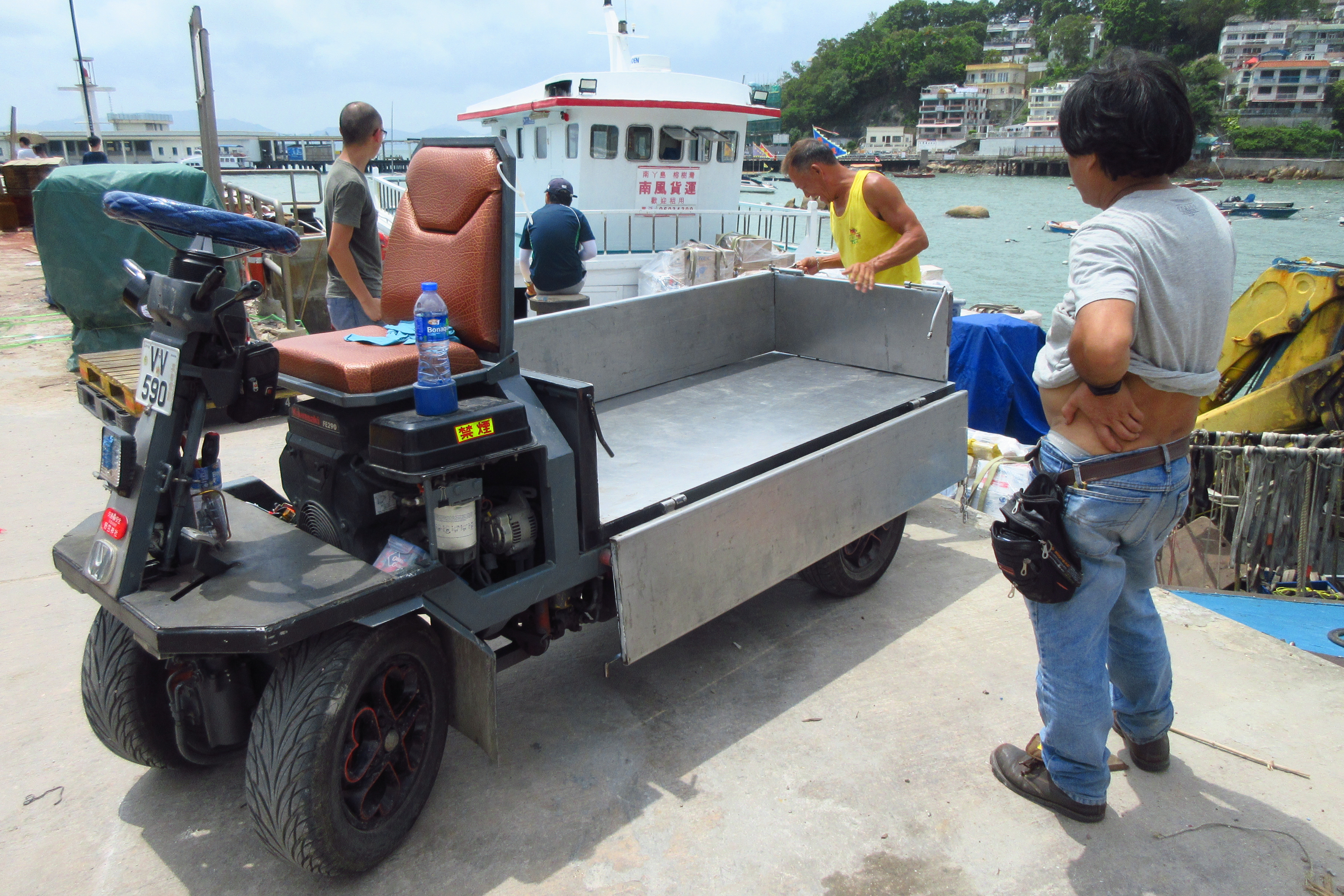 HK YSW 南丫島 Lamma Island 榕樹灣廣場路 Yung Shue Wan Plaza Road June 2018